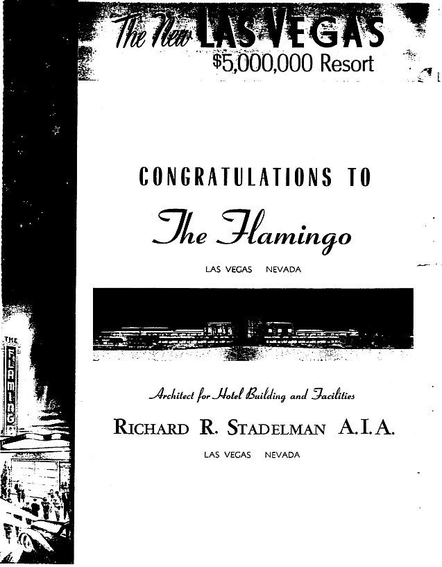 Copy of a full-page ad my father ran in the Las Vegas Sun in December of 1945 celebrating the grand opening of the Flamingo Hotel & Casino